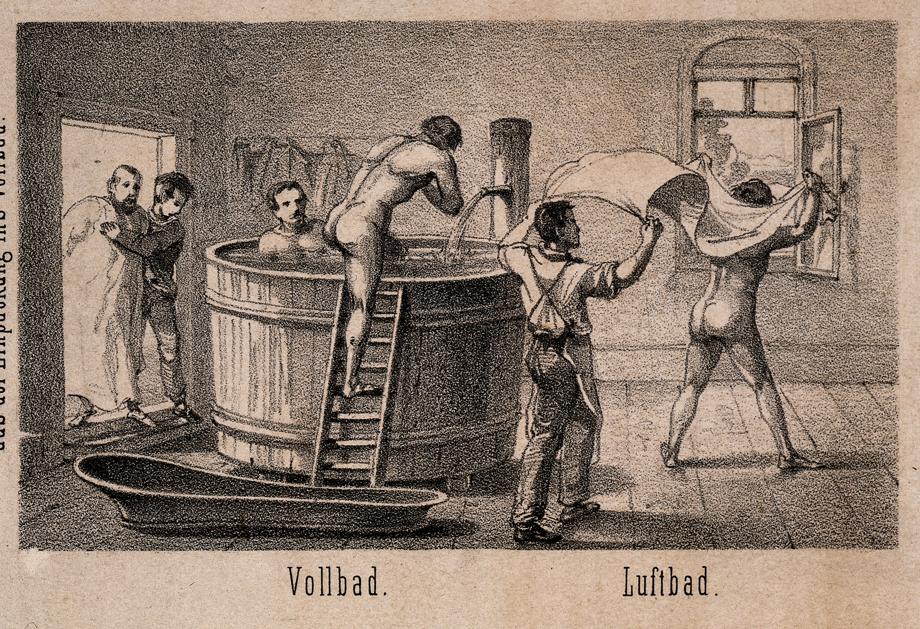 Hydrotherapy cures at Gräfenberg, Germany, luftbad [right] and full bath [left] Iconographic Collections Keywords: Hydrotherapy; THERAPY